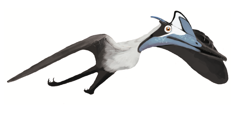 Life restoration of BMMS 7, the largest known specimen of Pterodactylus antiquus. The shape of the crest is based on that of BSP 1929, but made speculatively larger to account for a more mature growth stage.